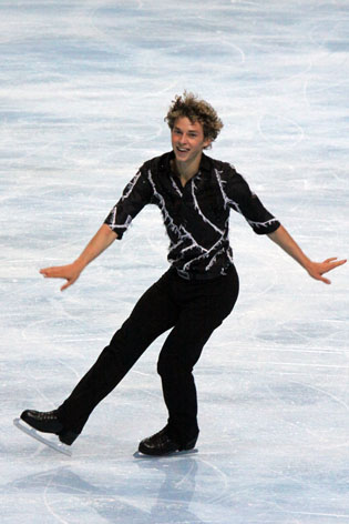 Adam Rippon(USA) at the 2009 Trophee Eric Bompard.